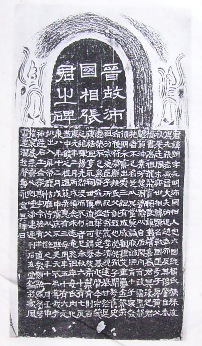 Rubbing of Chan lang Stele（ACE300, Jin dynasty, China）, unearthed in Luoyang, China, Exported to Japan and damaged in the earthquake in ACE1923